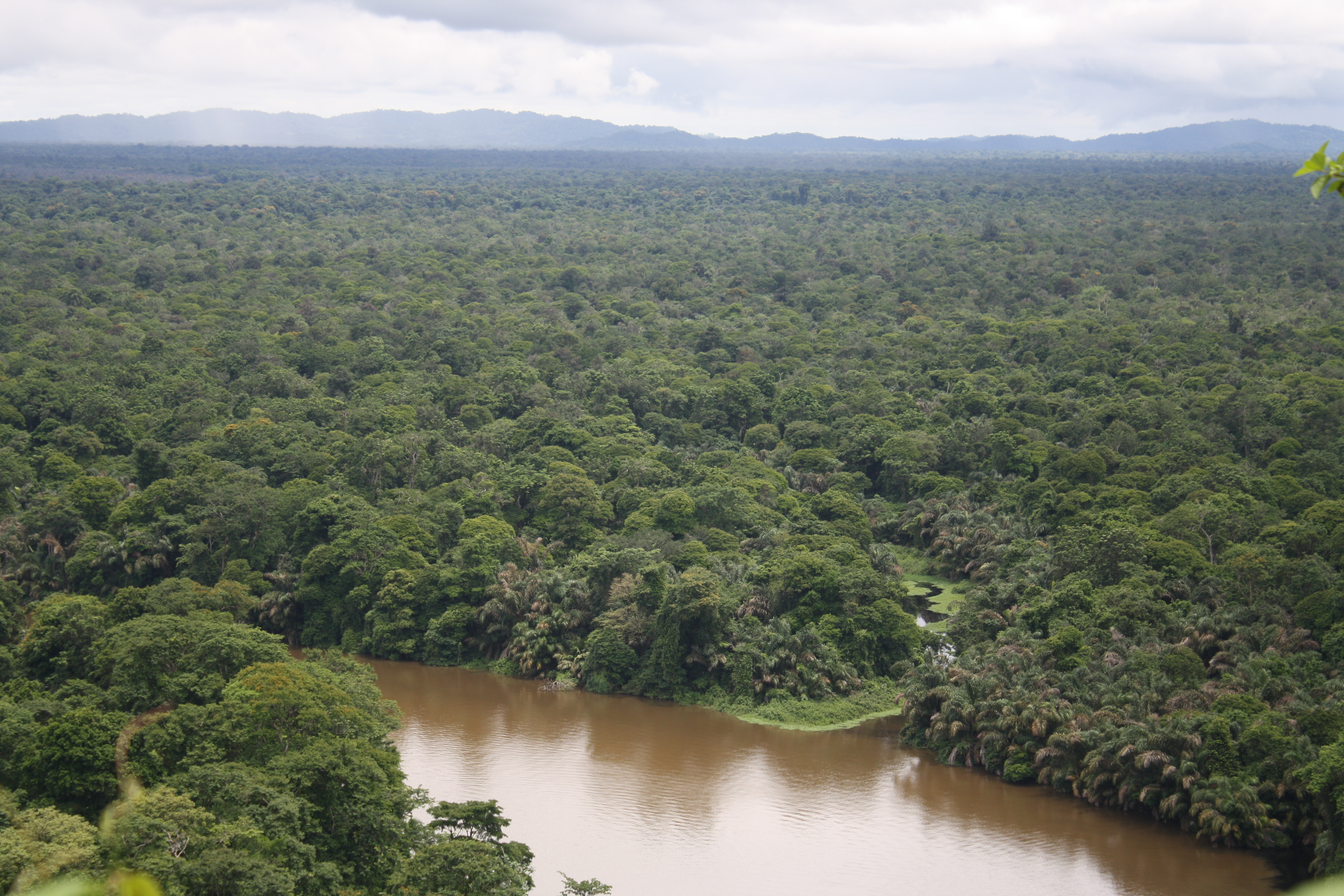 Palm forest in Manicaria and Raphia swamps — Tortuguero National Park, northeastern Costa Rica. Of the Isthmian-Atlantic moist forest ecoregion, of the Tropical and subtropical moist broadleaf forests biome.